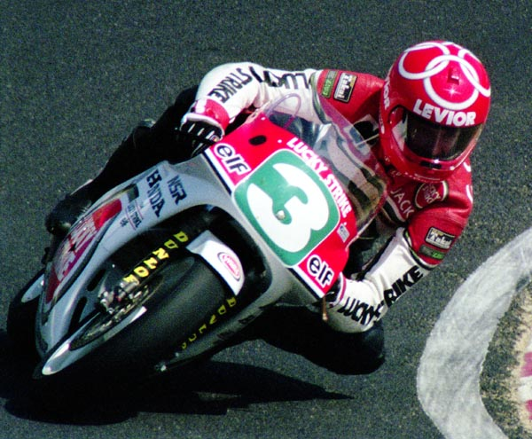 Jacques Cornu, at Japanse Grand Prix 1990